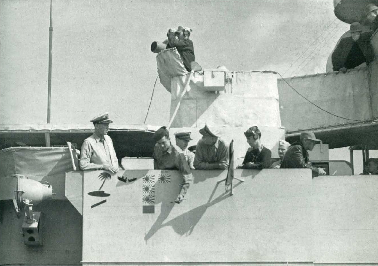 "Kill" markings are added to the scoreboard of the U.S. Navy escort carrier USS Lunga Point (CVE-94) off Iwo Jima, on 22 February 1945. On the previous day, the ship was attacked by four aircraft. All were shot down, but the last slithered over the flight deck and crashed with the right wing into the after part of the island, shearing off the wing before falling into the sea. The resulting fires from burning gasoline were quickly extinguished. The ship's commanding officer, Captain G.A.T. Washburn, is visible on the left.